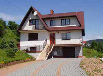 A typical Polish house from the Nineteen Nineties